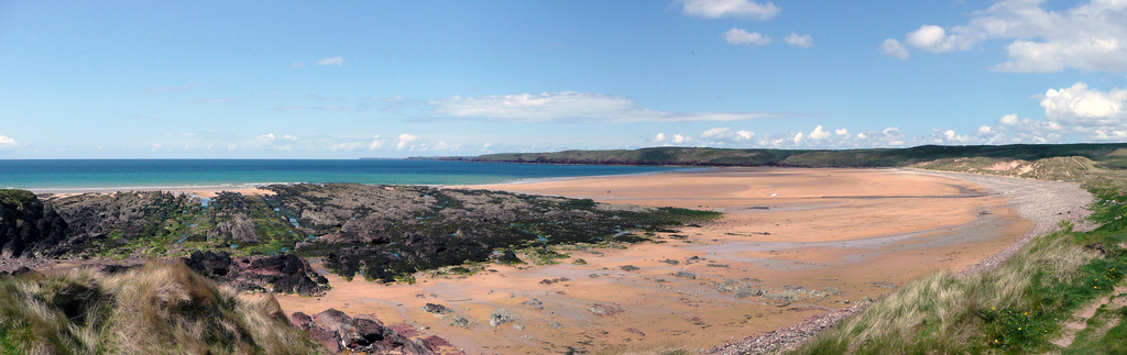 A panoramic view of Freshwater West Beach, Pembrokeshire, West Wales, UK.